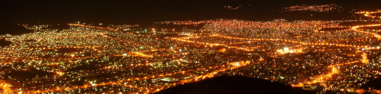 Panorama of Sanandaj, capital of Kurdistan Province of Iran.